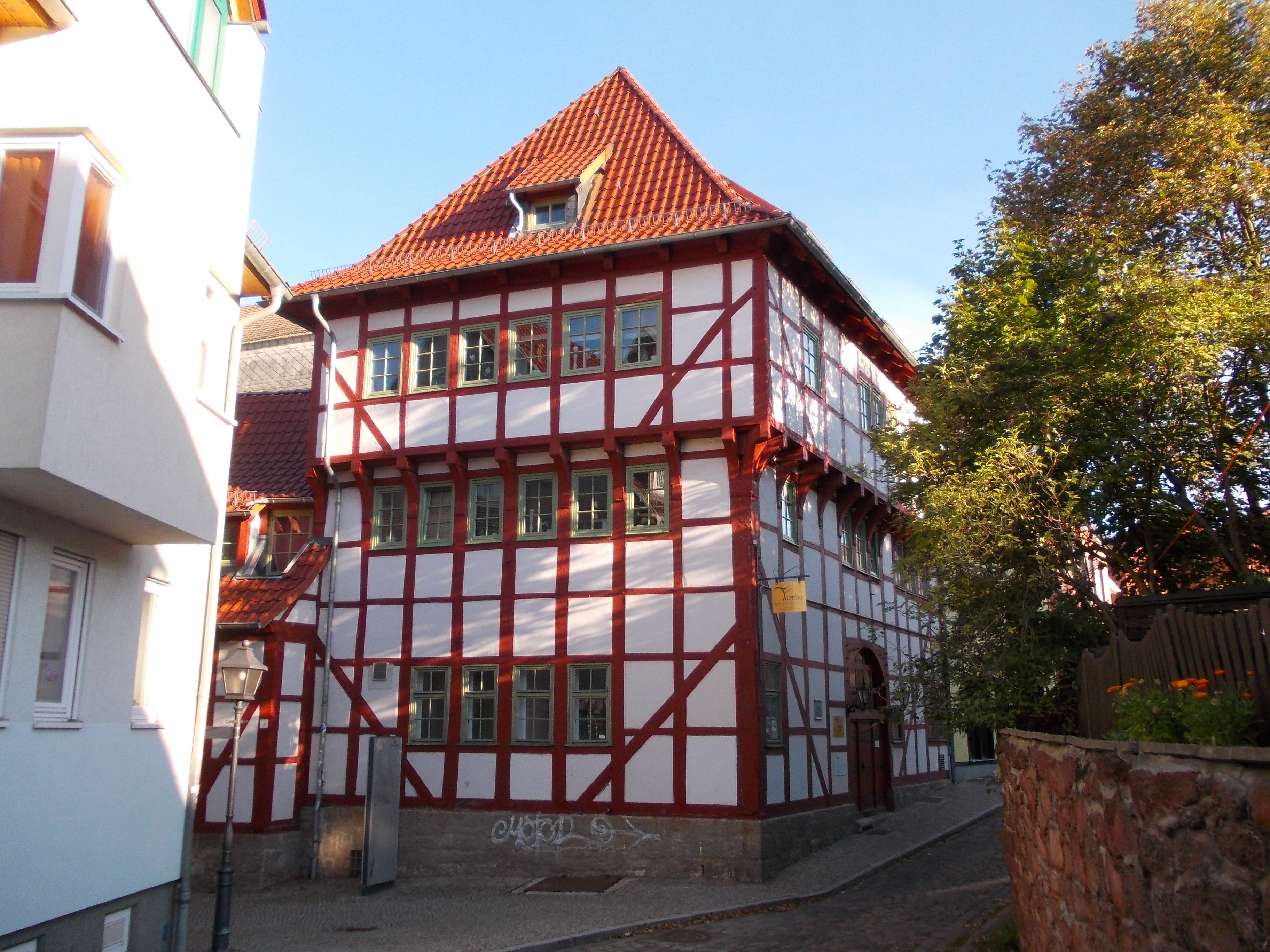 Finkenburg house in Nordhausen (Thuringia)